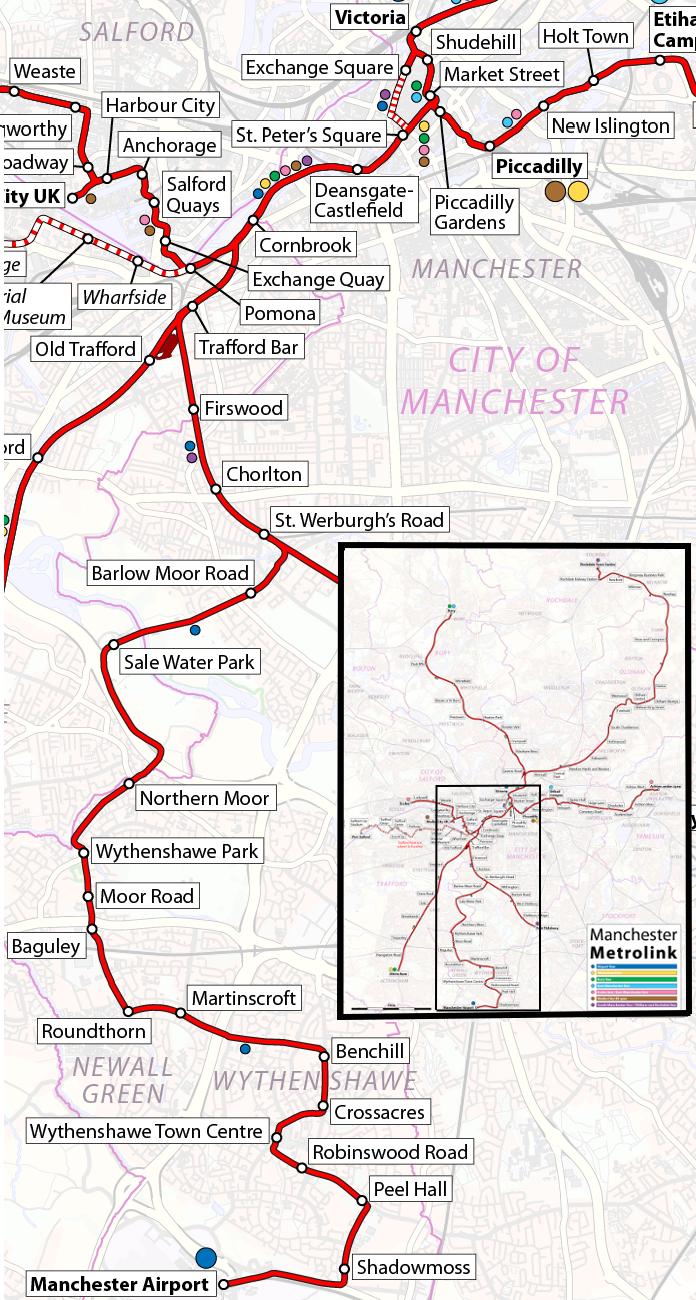 Map of the Airport Line (Manchester Metrolink)